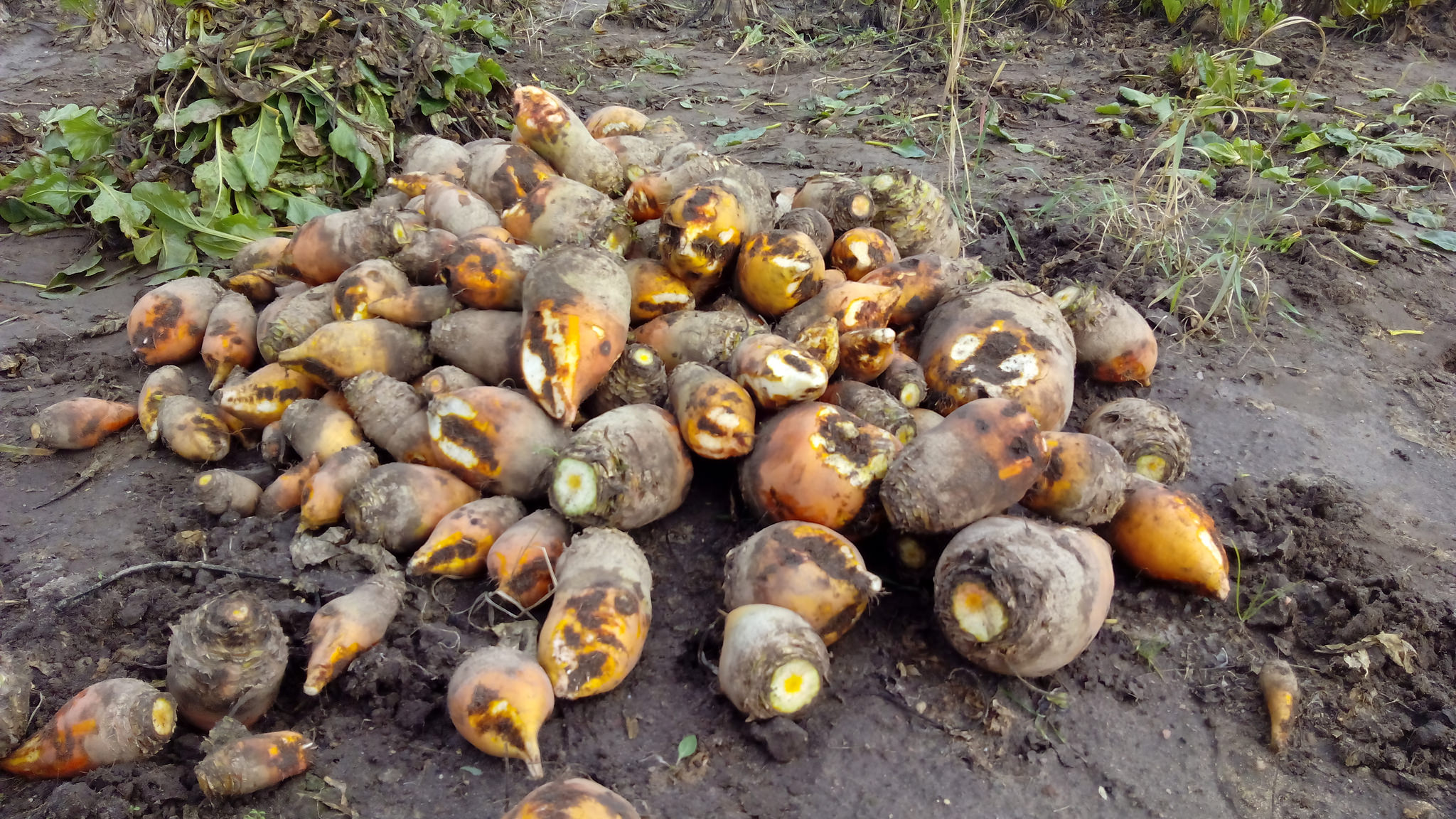 Фота з базы юных натуралістаў, Баранавічы, 8 кастрычніка, 2016, Беларусь